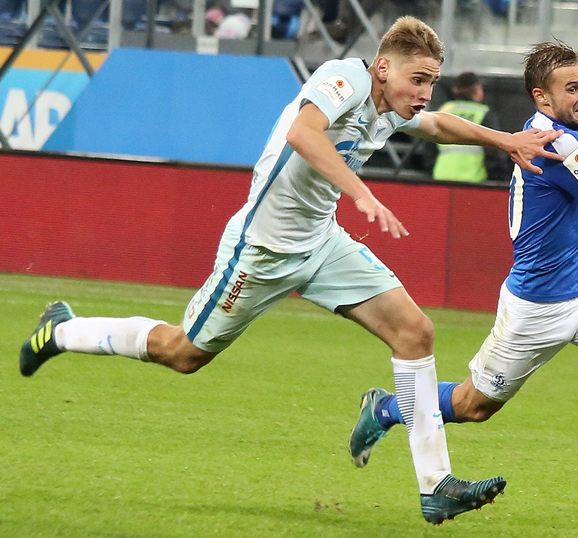 Kirill Kaplenko with FC Zenit Saint Petersburg in a Russian Cup game against FC Dynamo Saint Petersburg.